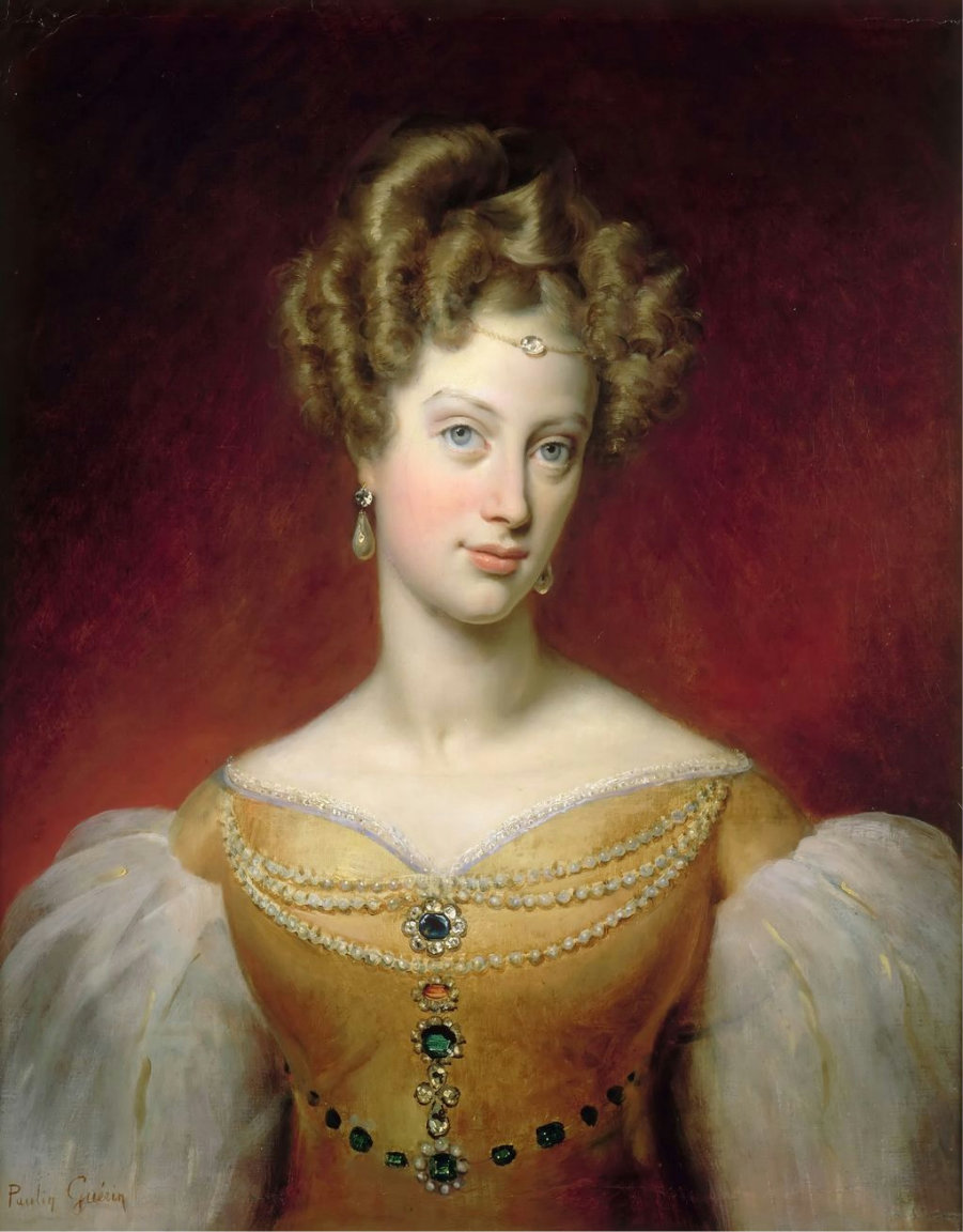 Marie-Caroline of the Two Sicilies, Duchess of Berry